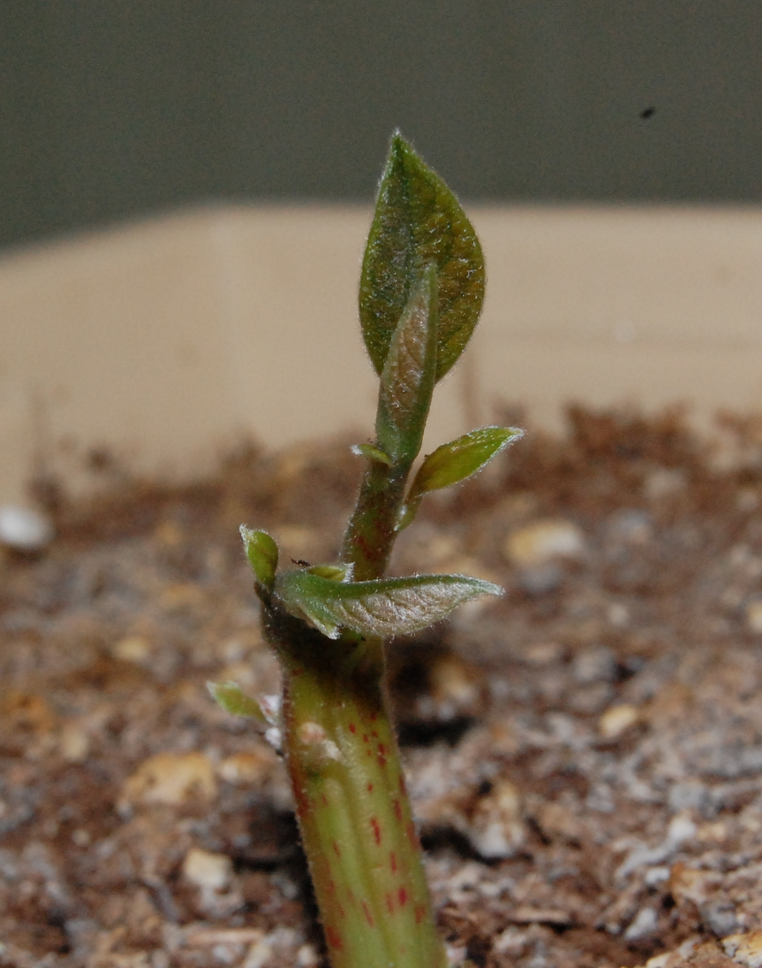 A young (2 weeks old) avocado sprout.